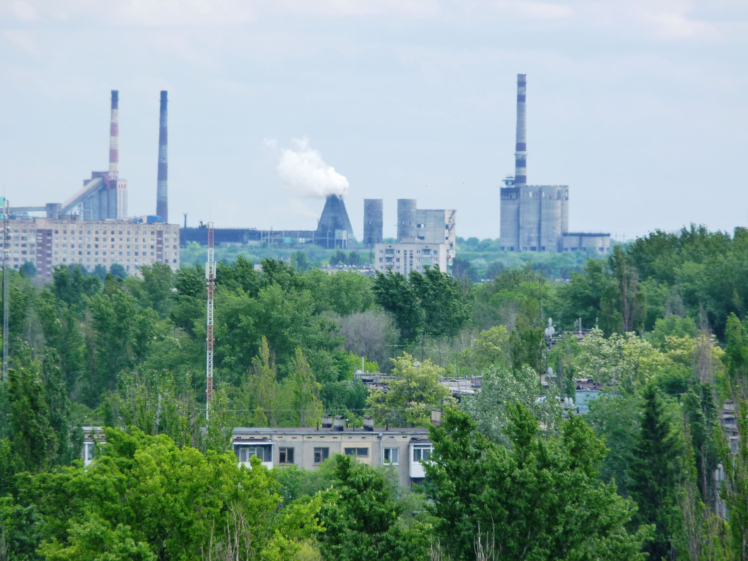 Bagliy coke-chemical plant in Kamianske